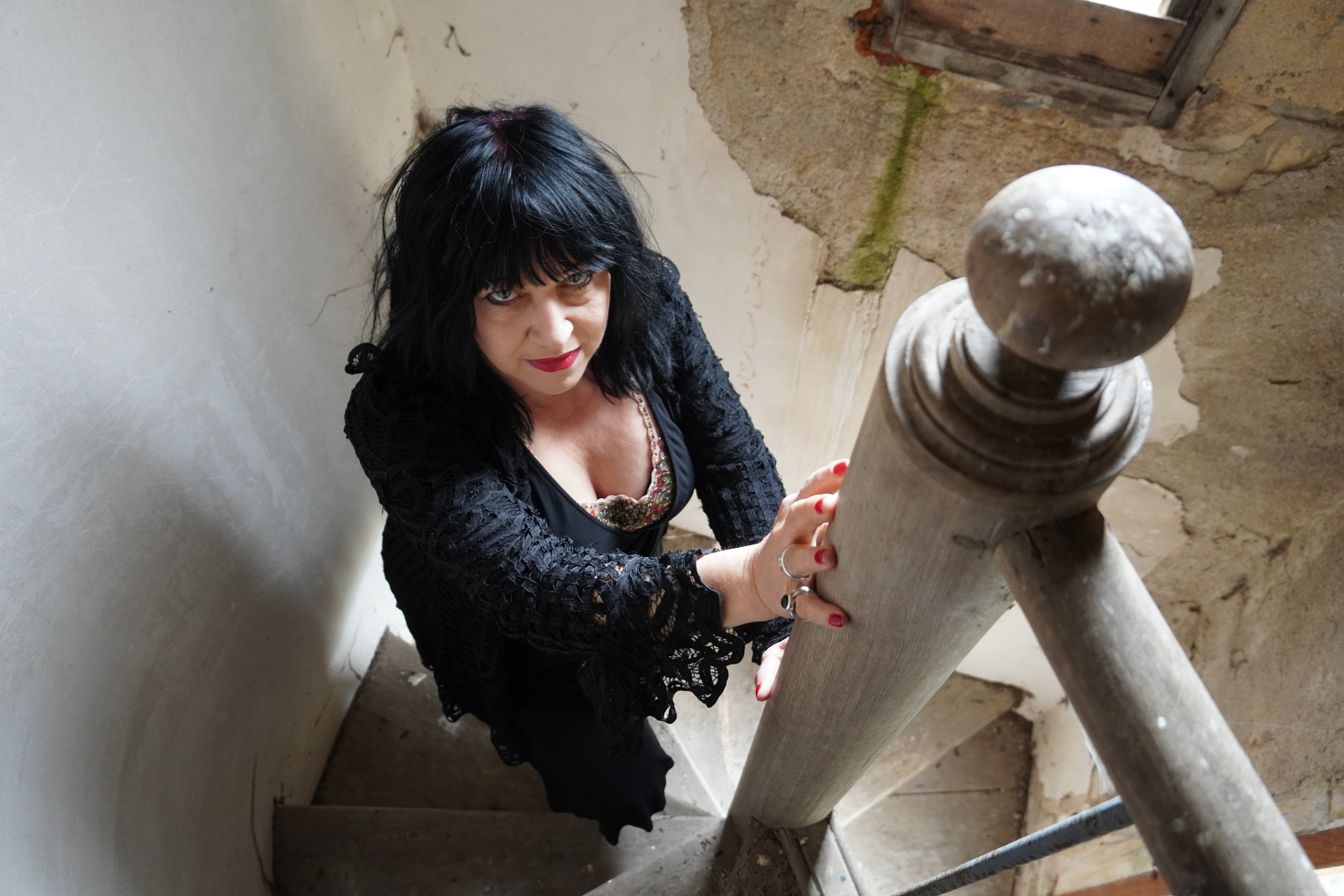 Lydia Lunch at Chateau H France April 2019